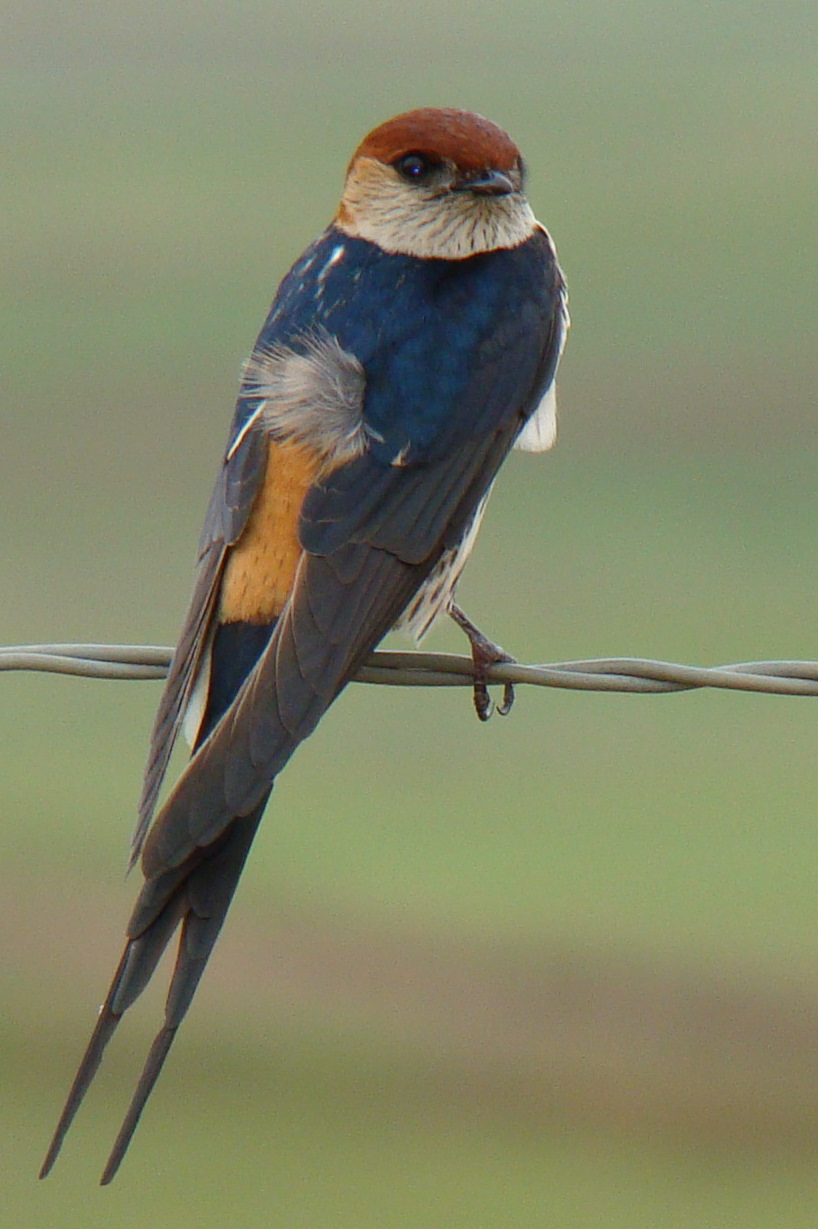 A Greater Striped Swallow Cecropis cucullata resting on a piece of wire in Drakensberg, South Africa.